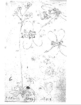 The first botanical illustration of Stylidium spathulatum, made immediately after its collection at Princess Royal Harbour (Albany, Western Australia). This poor reproduction, reproduced from a photocopy of a damaged sketch (the only available reproduction), is of one of the sketches made by Ferdinand Bauer of Stylidium spathulatum on board the Investigator at King George Sound and Lucky Bay